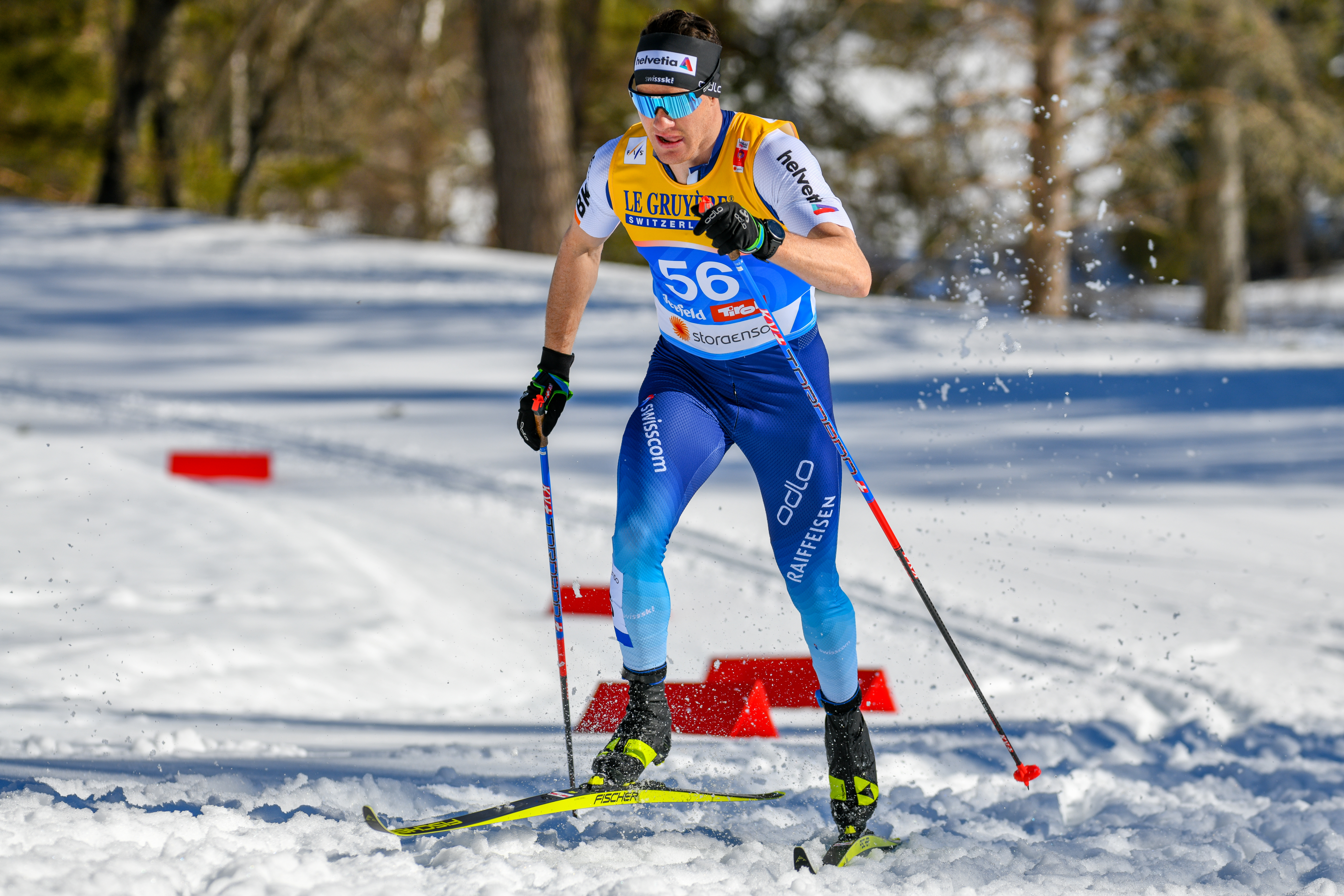 FIS Nordic Wolrd Ski Championships Seefeld 2019 - Men 15km Interval Start Classic. Picture shows Dario Cologna (SUI).